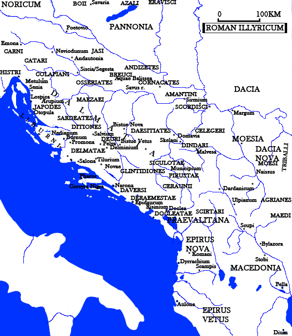 Roman Province of Illyricum, by Wilkes, including Epirus Nova, Epirus Vetus, Moesia and other provinces